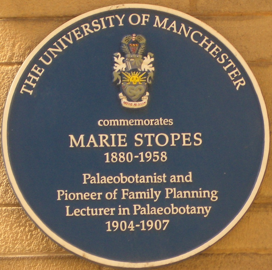 Blue plaque at the Department of Botany, University of Manchester, Oxford Road Chorlton on Medlock, UK, commemorating palaeobotanist and birth control pioneer Marie Stopes (could be located more precisely by those with inside knowledge)